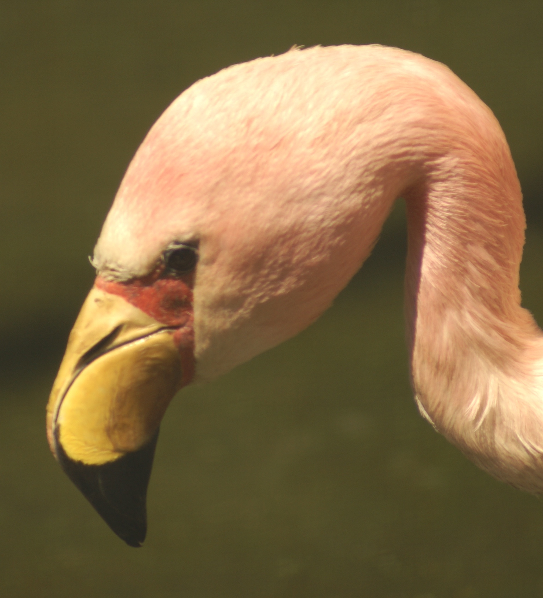 Phoenicoparrus jamesi, Zoo Berlin, Germany